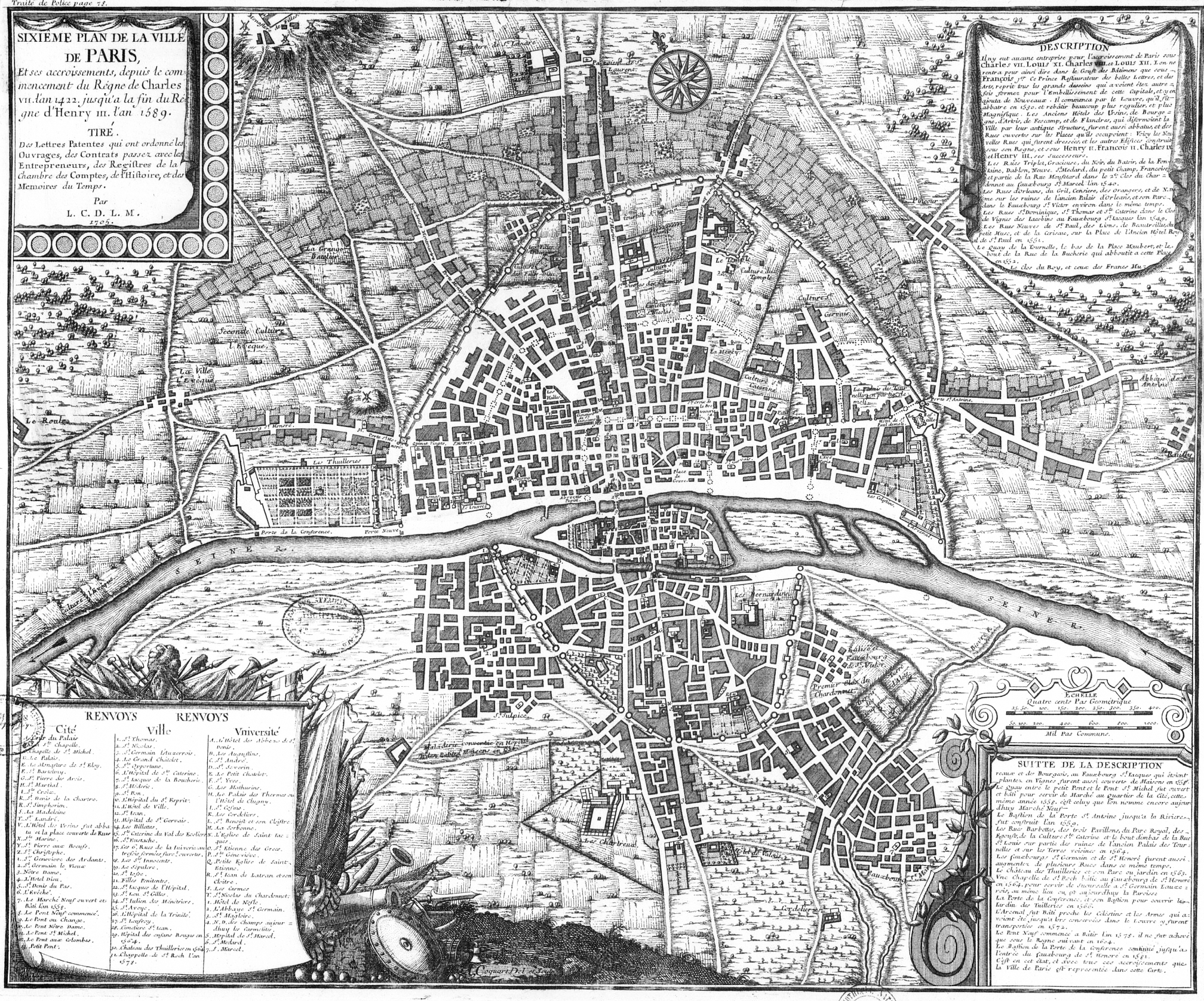 Plan of Paris in 1589, the sixth of eight chronological maps of Paris from Traité de la police